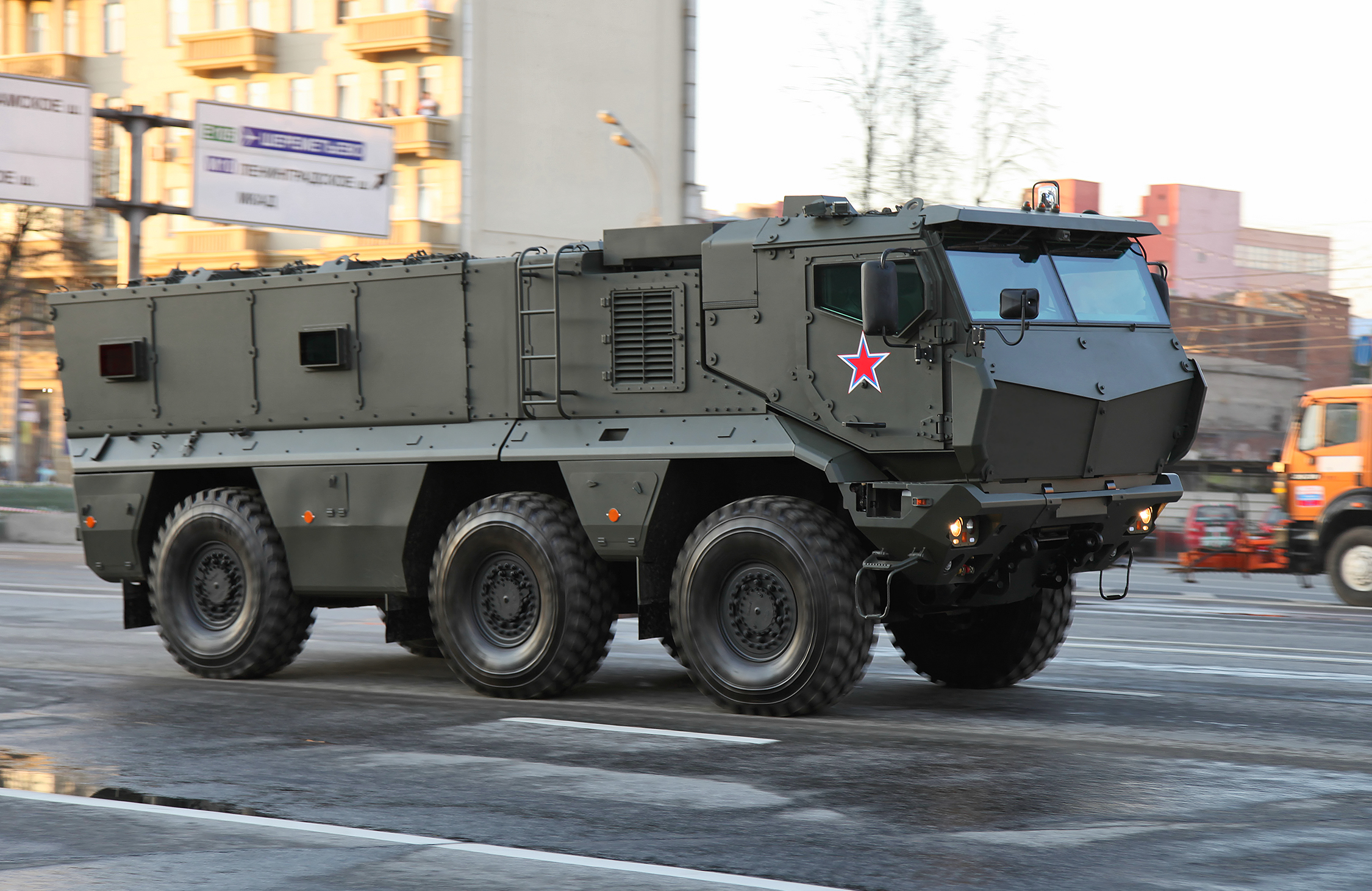 KAMAZ-63968 Typhoon-K MRAP vehicle